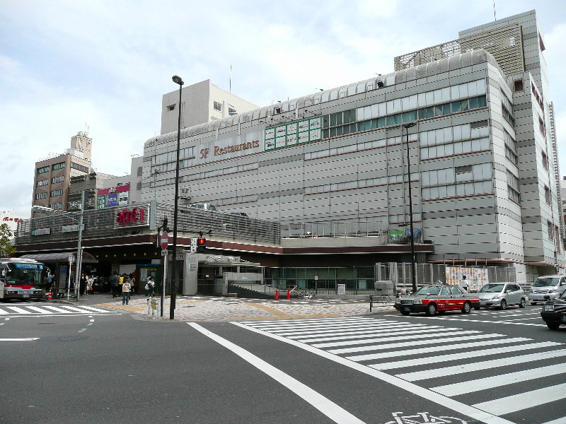 West Exit of JR East Meguro Station